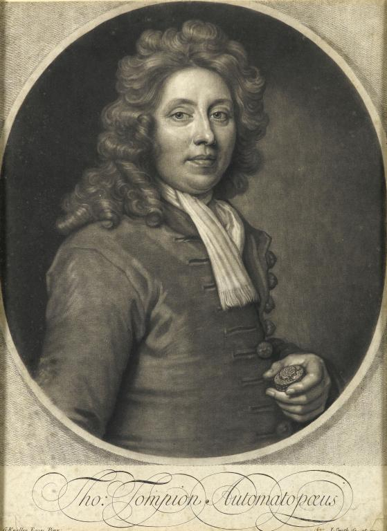 THOMAS TOMPION (1639–1713), English clockmaker, mezzotint